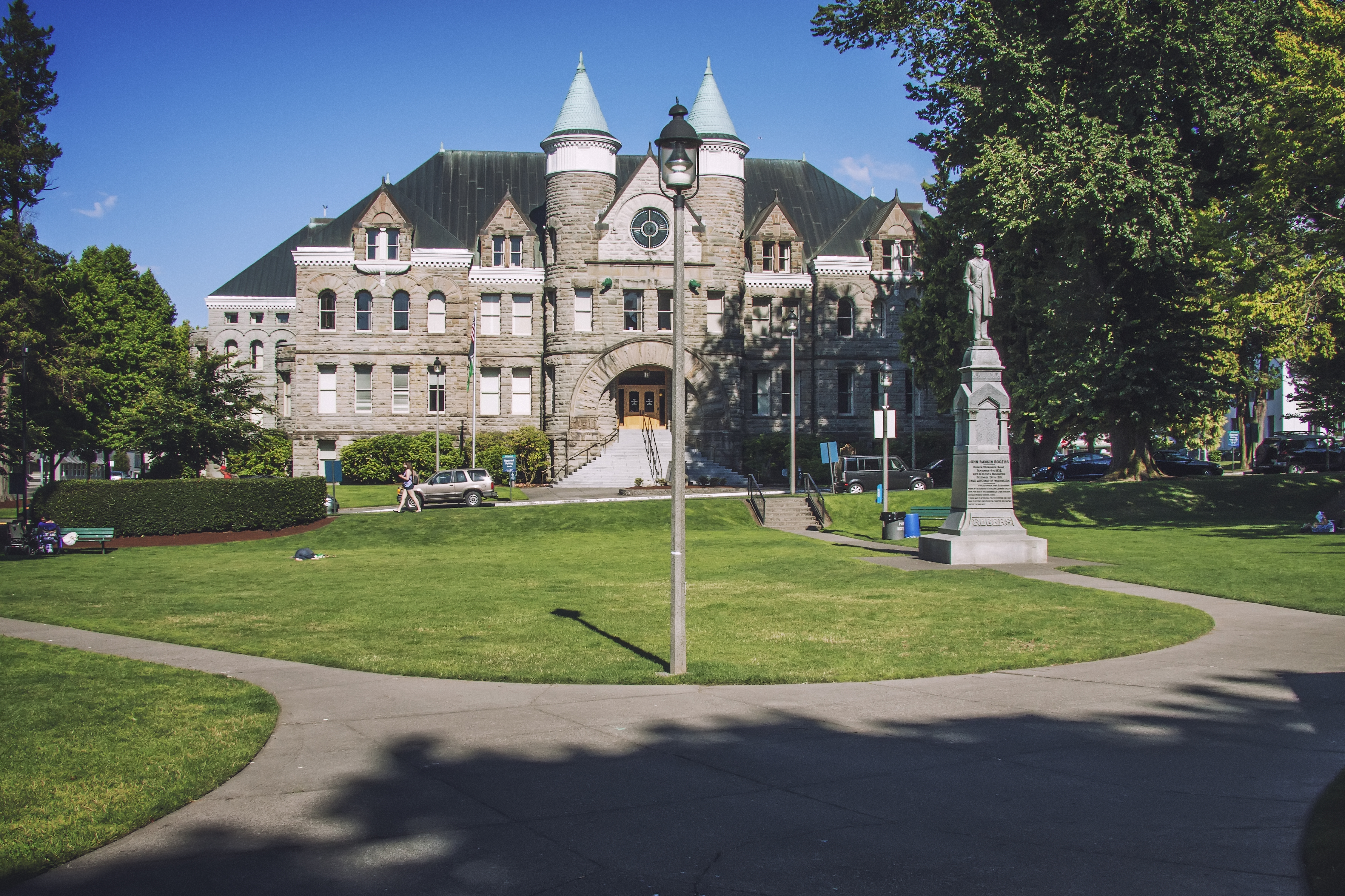 Old Capitol Building and John Rankin Rogers statue (Olympia, WA)